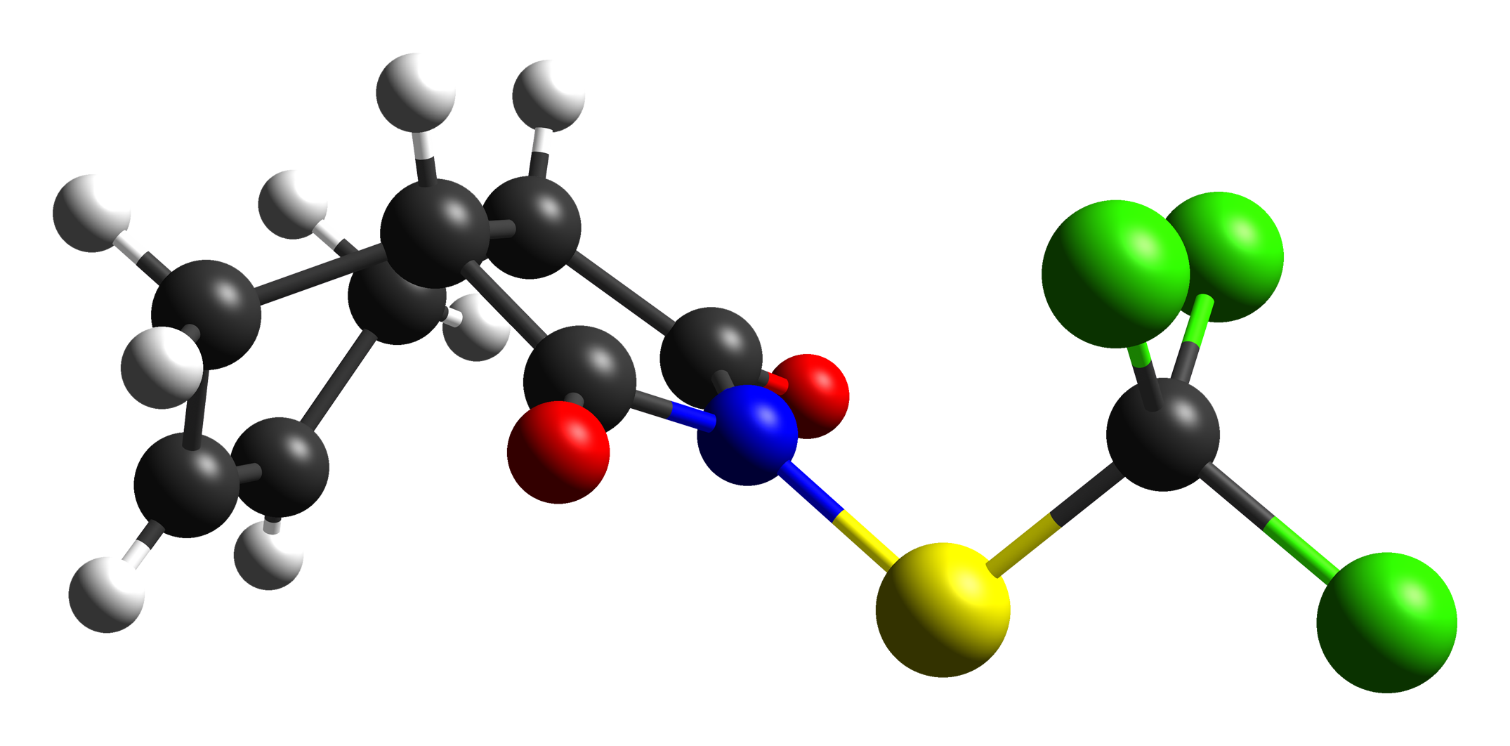 Ball-and-stick model of the captan molecule, C9H8Cl3NO2S, as found in the crystal structure. Colour code: Carbon, C: black Hydrogen, H: white Chlorine, Cl: green Nitrogen, N: blue Oxygen, O: oxygen Sulfur, S: yellow Crystal structure data from L. E. Moss, R. A. Jacobson, Cryst. Struct. Comm. (1981), 10, 1545– Image generated in CrystalMaker 8.3.